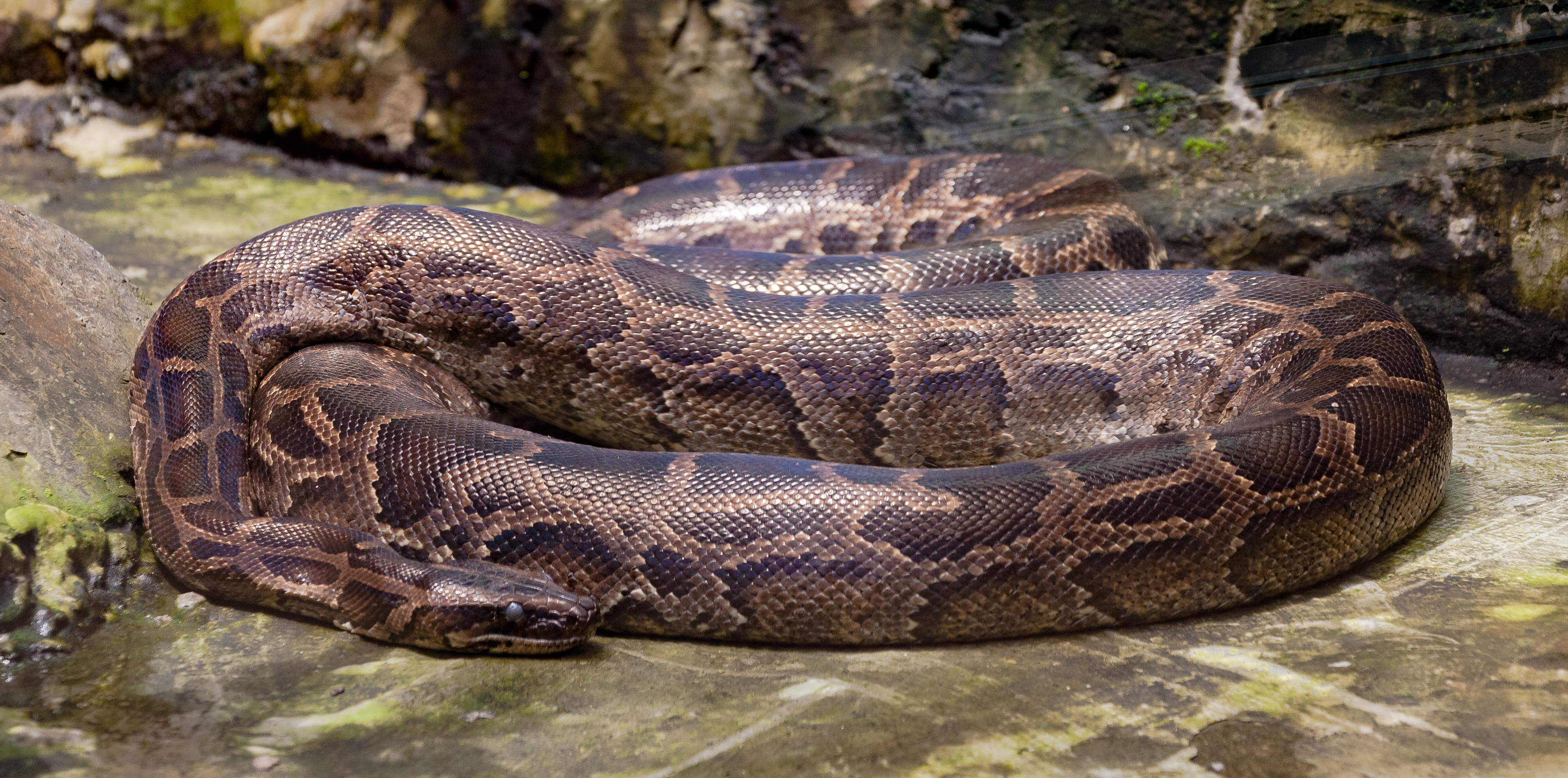 Indian phyton (Python molurus), Ho Chi Minh City Zoo, Vietnam